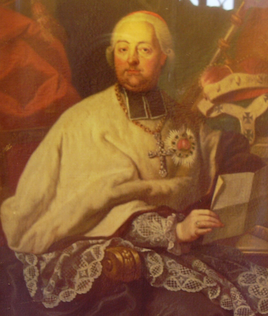 Portrait of bishop of Olomouc Anton Theodor Colloredo-Waldsee (1729-1811)